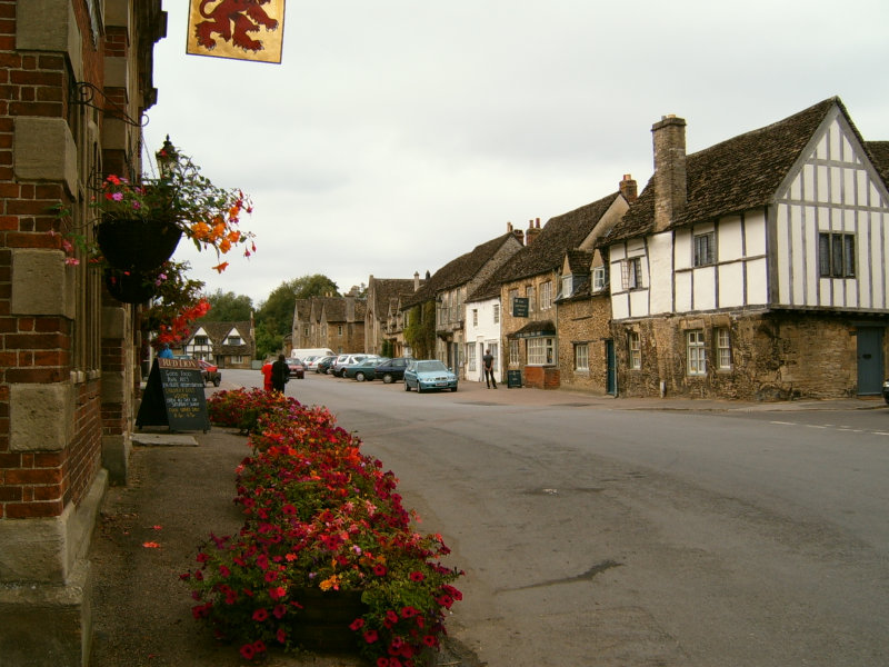 Image of the High Street of Lacock Village